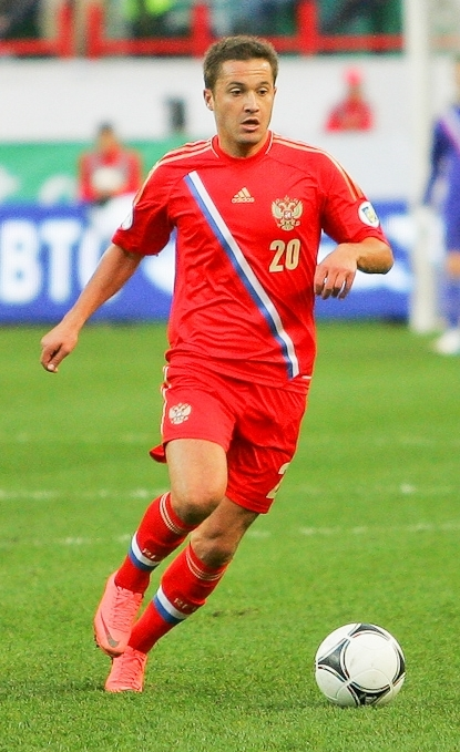 Viktor Fayzulin